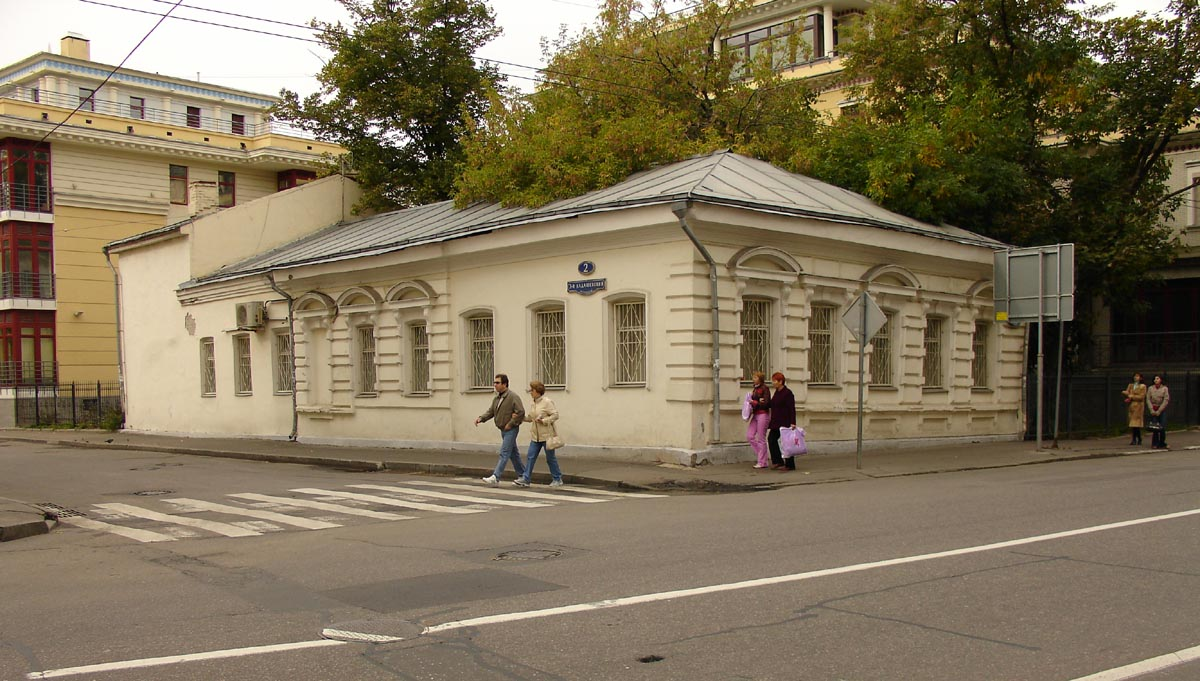 Moscow, Russia, Bolshaya Ordynka, 16, surviving historical building